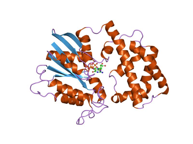 Cartoon representation of the molecular structure of protein registered with 1gia code.